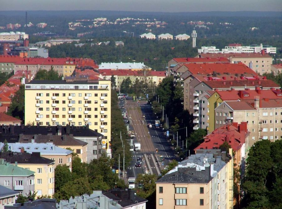 A view along the Mannerheimintie road in Helsinki, Finland. Apartment buildings of Meilahti and Laakso districts line both sides of the street. Photographed by Jonik from the tower of the Helsinki Olympic Stadium in August, 2004.